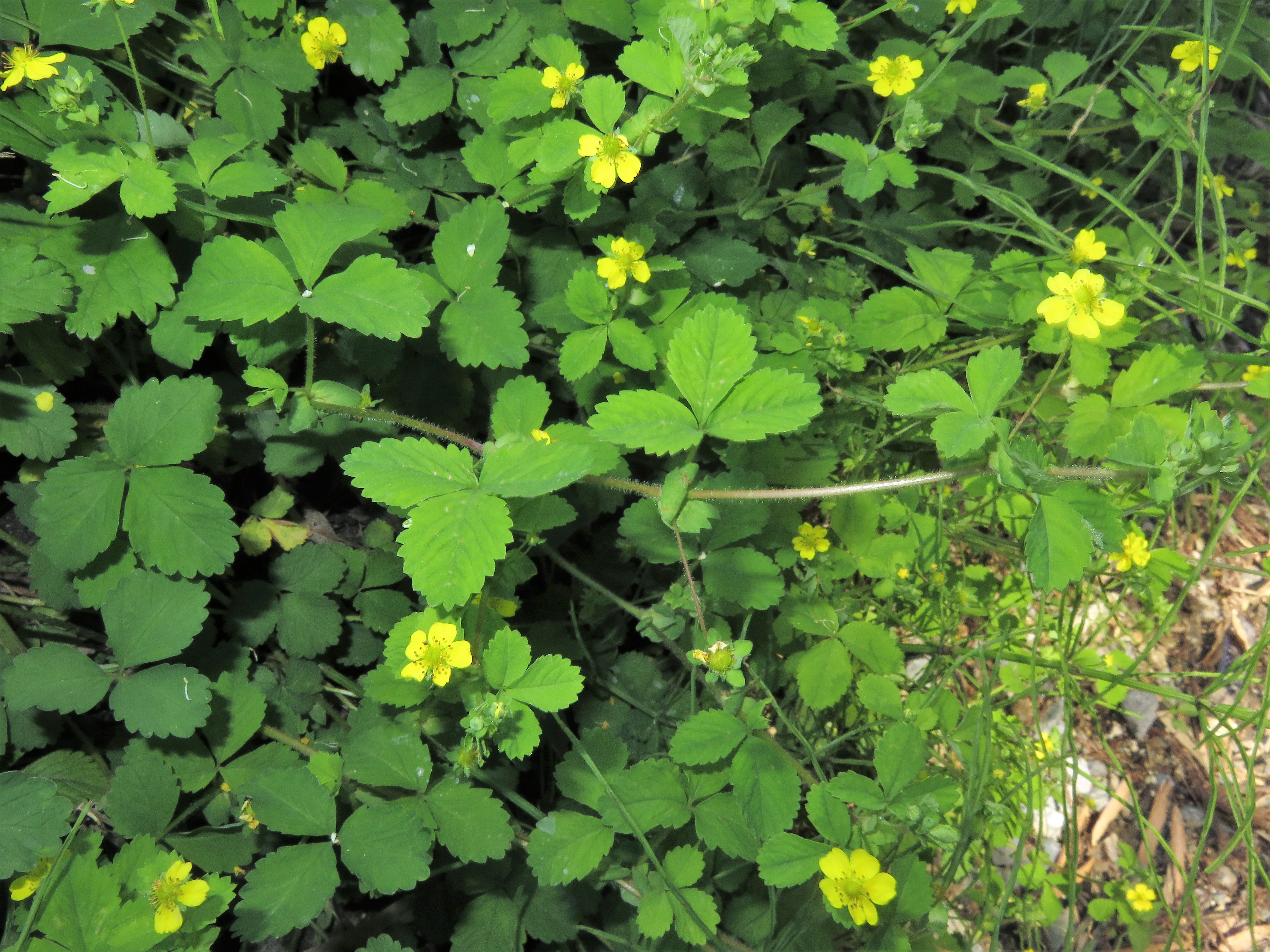 Potentilla centigrana, east area, Miyagi pref., Japan